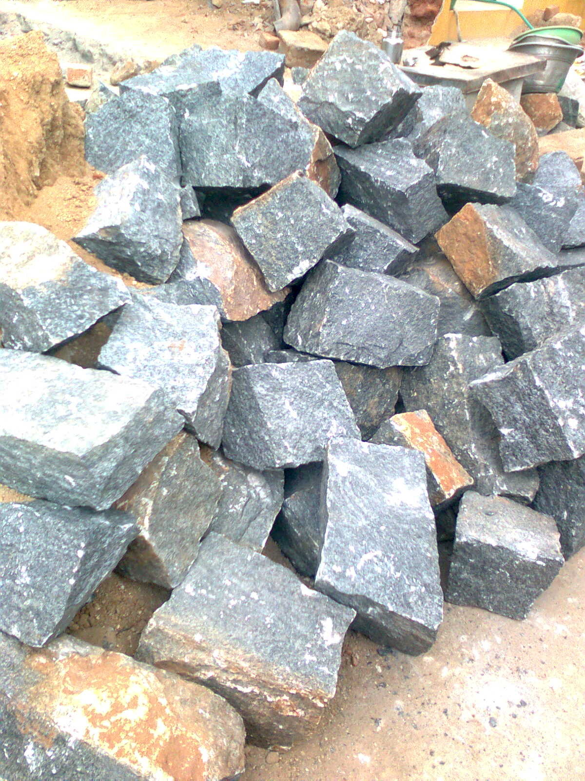 construction stone ofTamil Nadu, India.